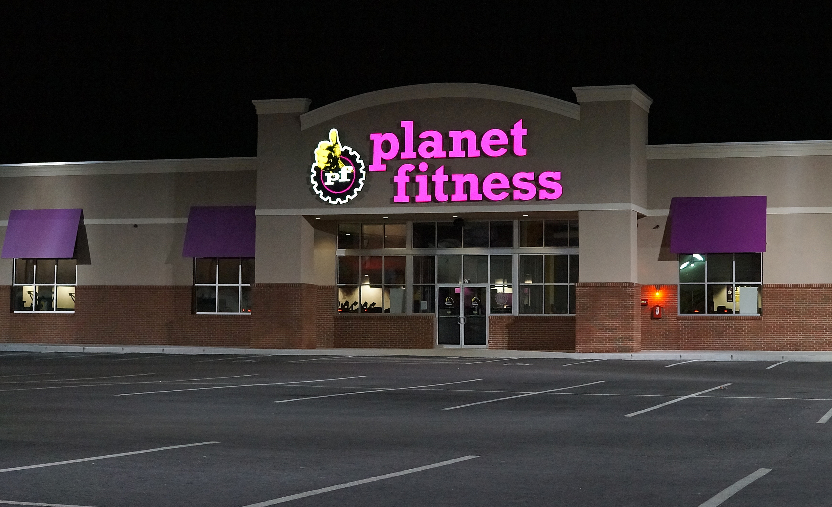 Planet Fitness, Revere, Massachusetts USA